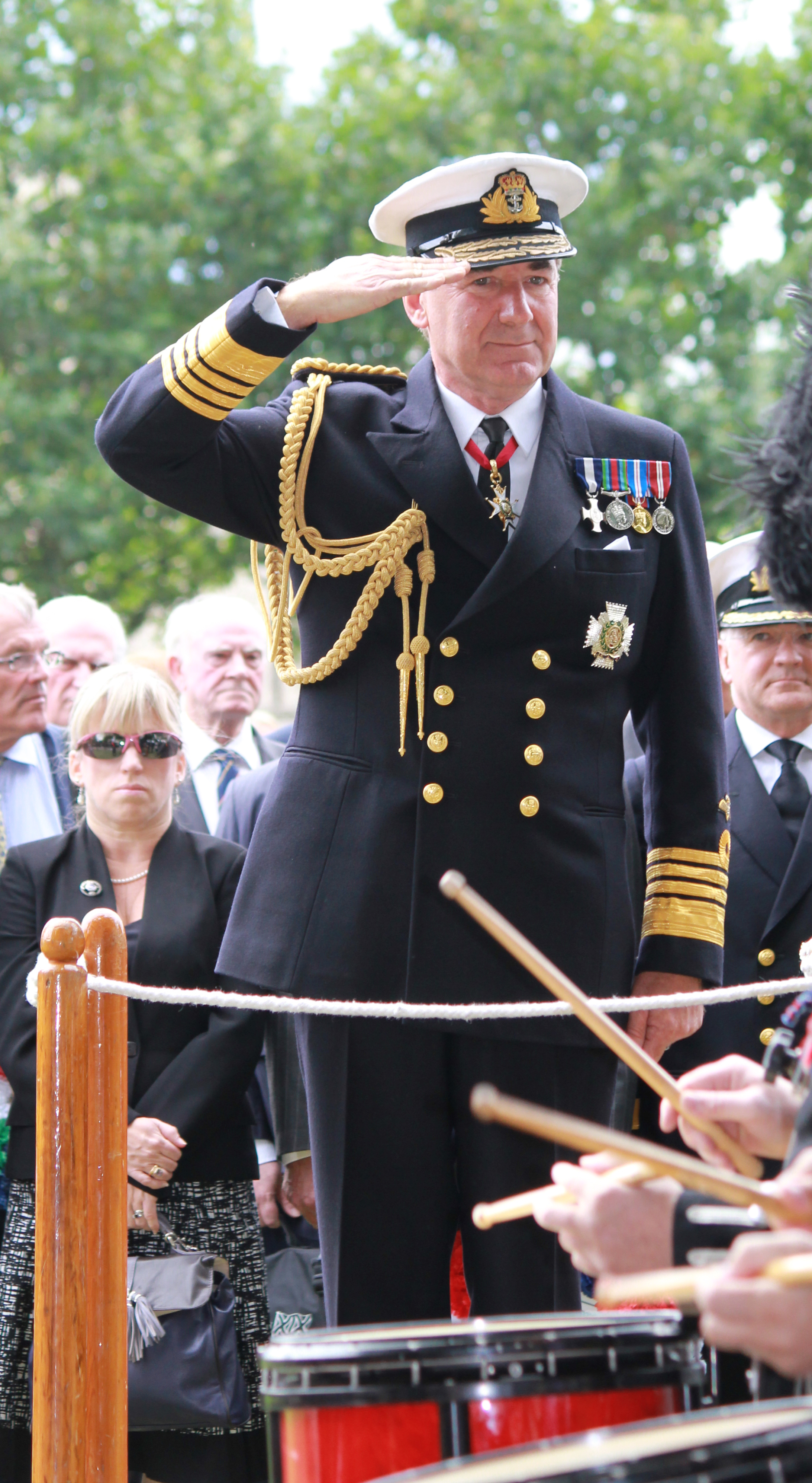 The First Sea Lord Admiral Sir George Michael Zambellas, KCB DSC ADC salutes a parade of Merchant Navy Standards and Standards of other Associations during Merchant Navy Day Commemorative Service and Reunion at Trinity Square Gardens.